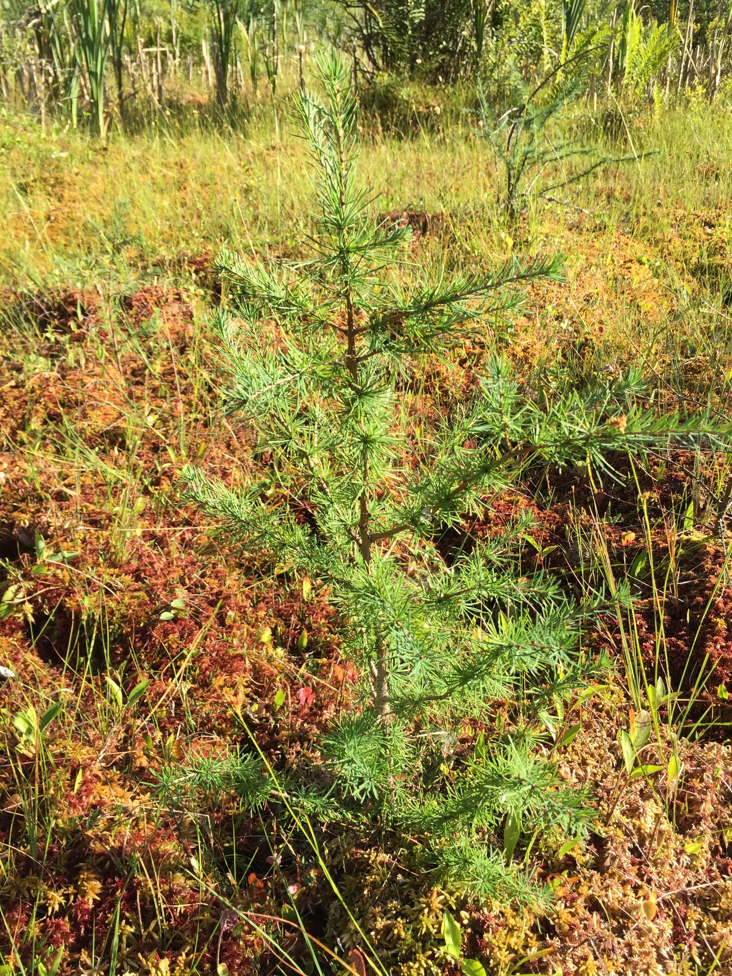 Tamarack seedling in a sphagnum bog adjacent to Taborton Road (Rensselaer County Route 42) in Sand Lake, New York